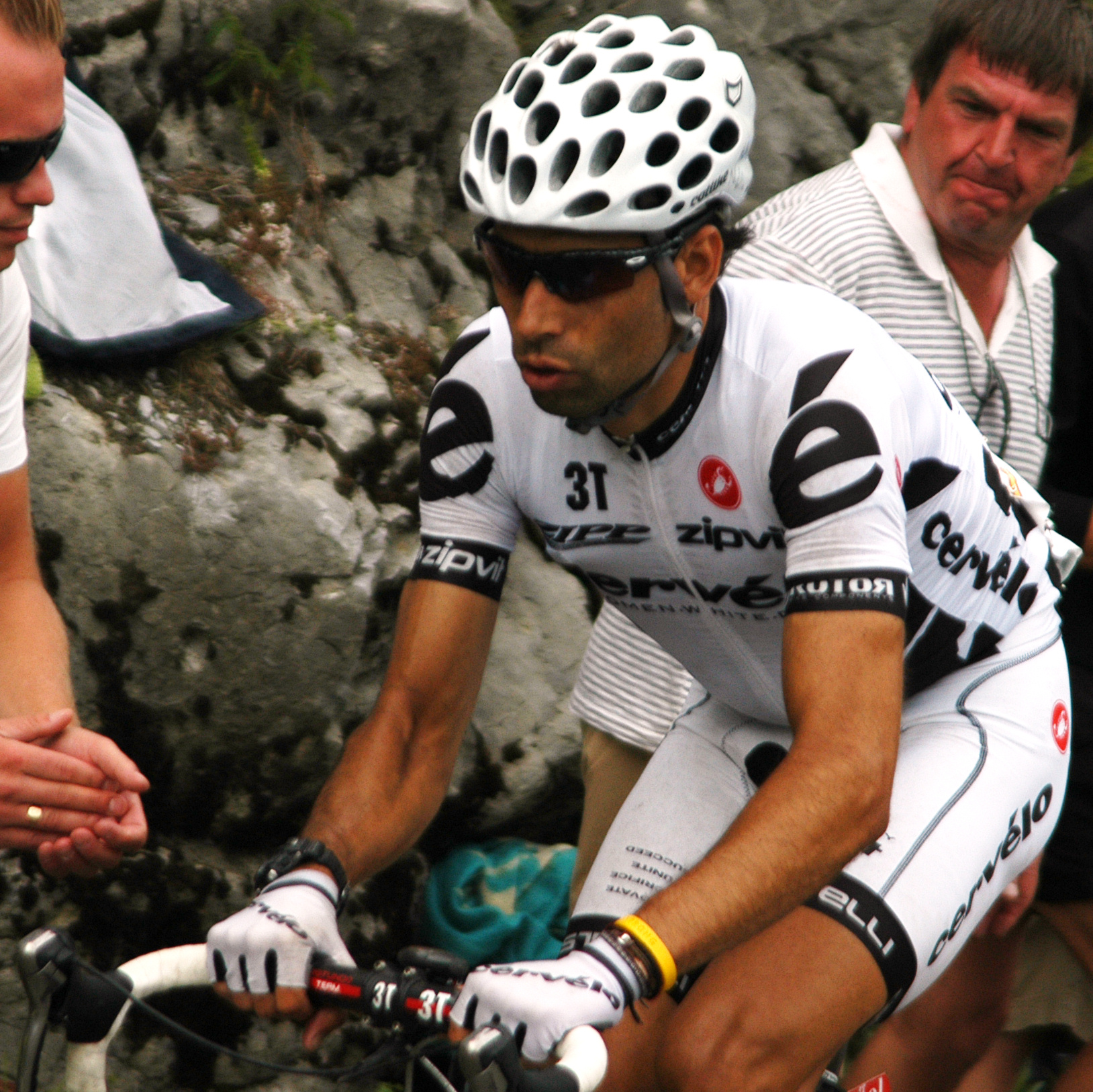 Íñigo Cuesta (ESP) at stage 17 of the 2009 Tour de France on the Col de la Colombière.